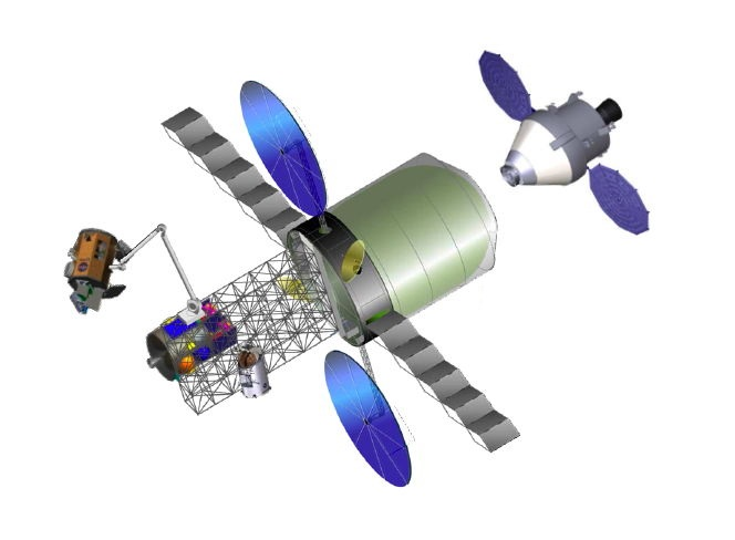 This is an updated image of the Skylab II space station concept.